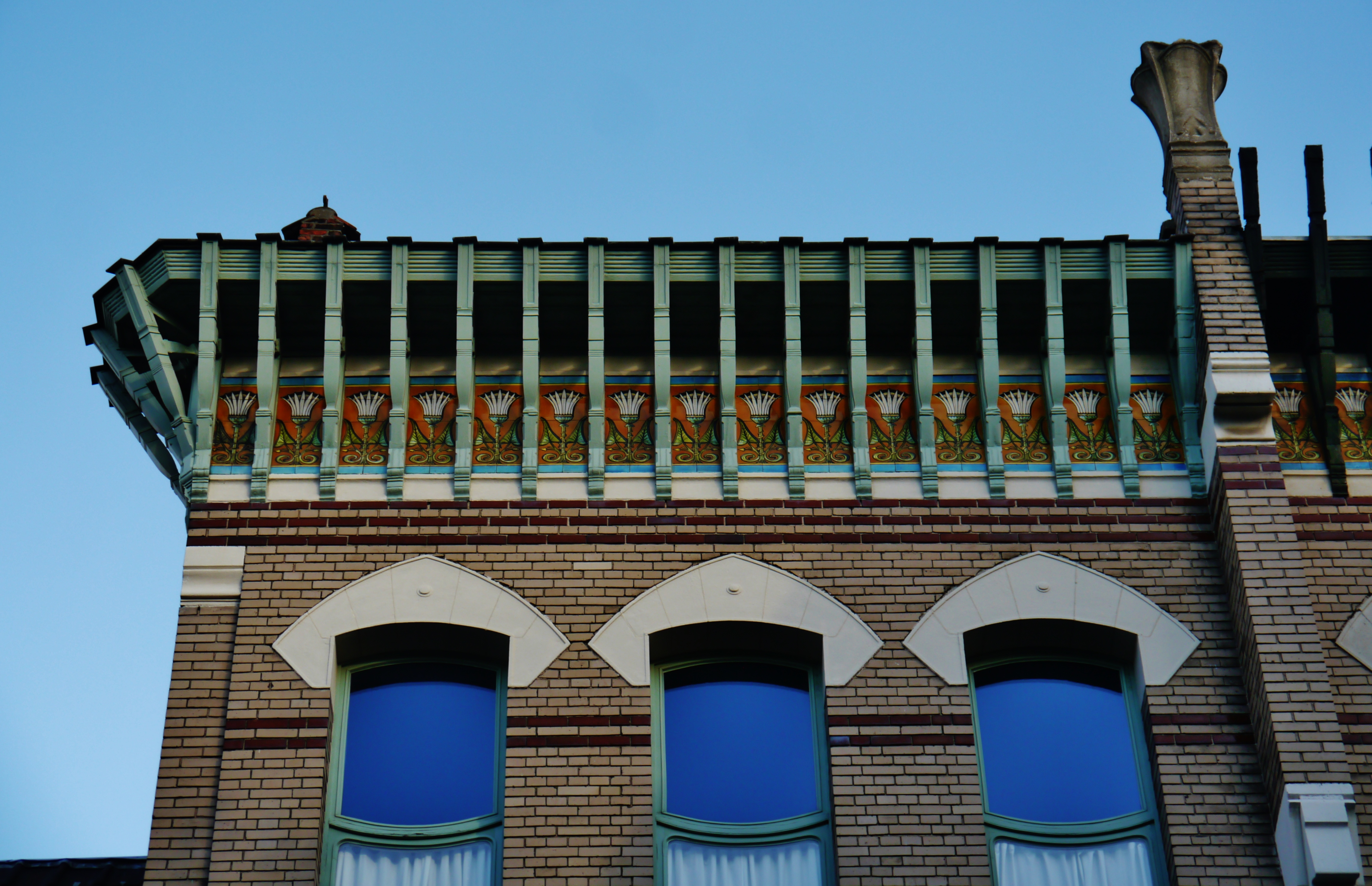 Art Nouveau Architecture in Transvaal Street, Antwerp, Province of Antwerp, Flanders, Belgium